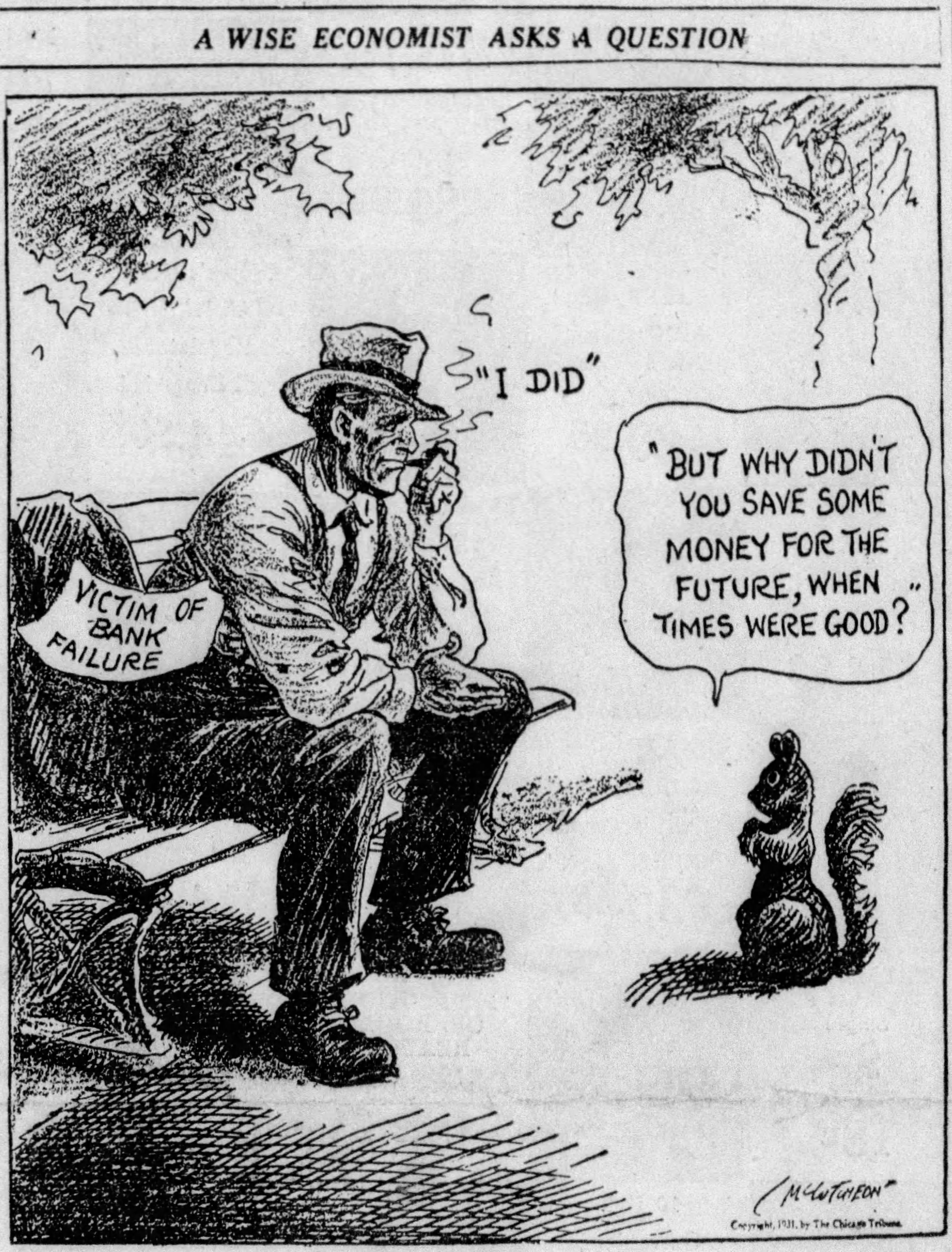 "A Wise Economist Asks a Question", an editorial cartoon commenting on bank failures amid the Great Depression. Winner of the 1932 Pulitzer Prize for Editorial Cartooning.